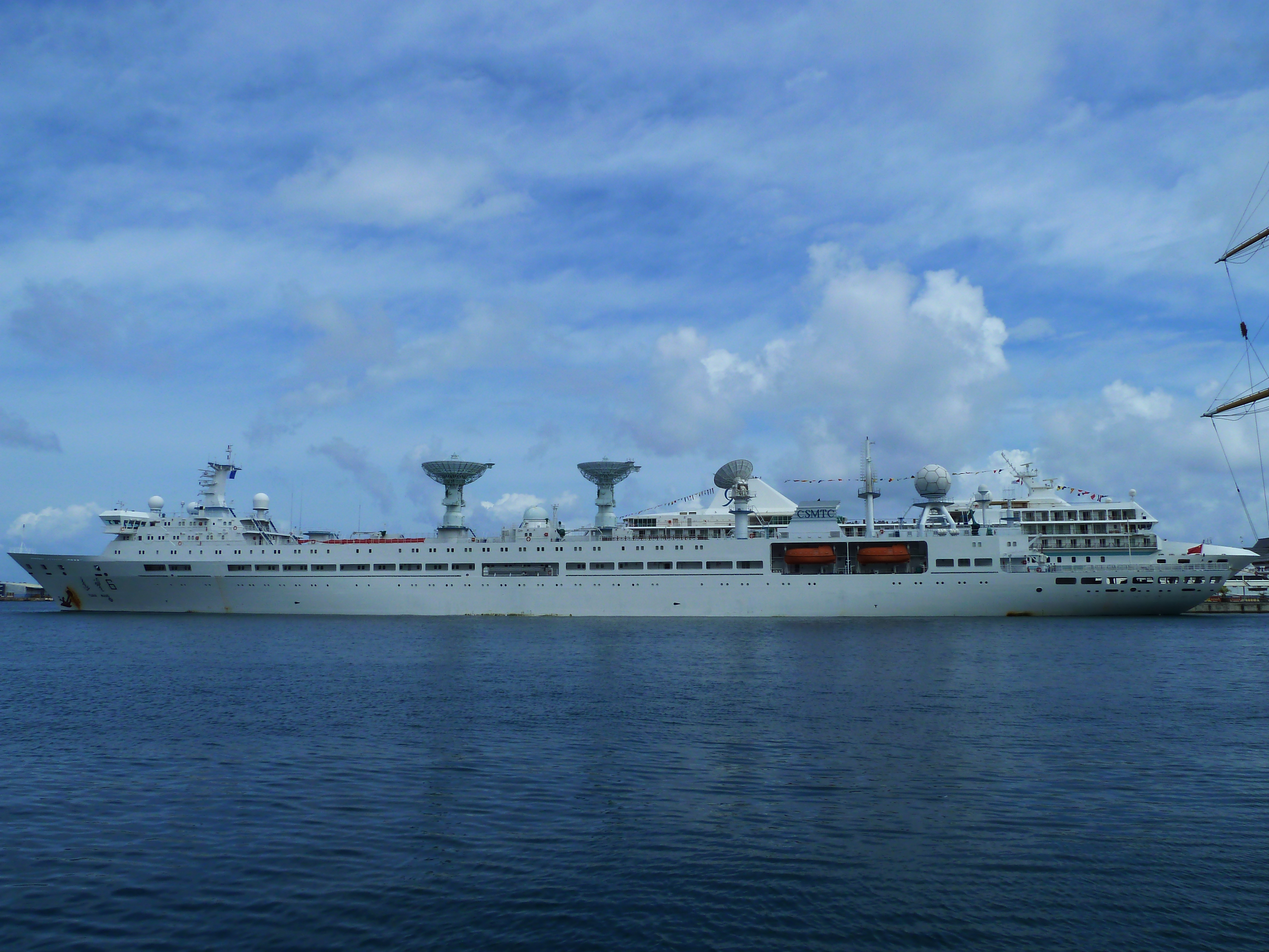 A Chinese tracking ship in port at Papeete, French Polynesia, December, 2011.